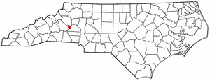 Category:North Carolina Dot Maps